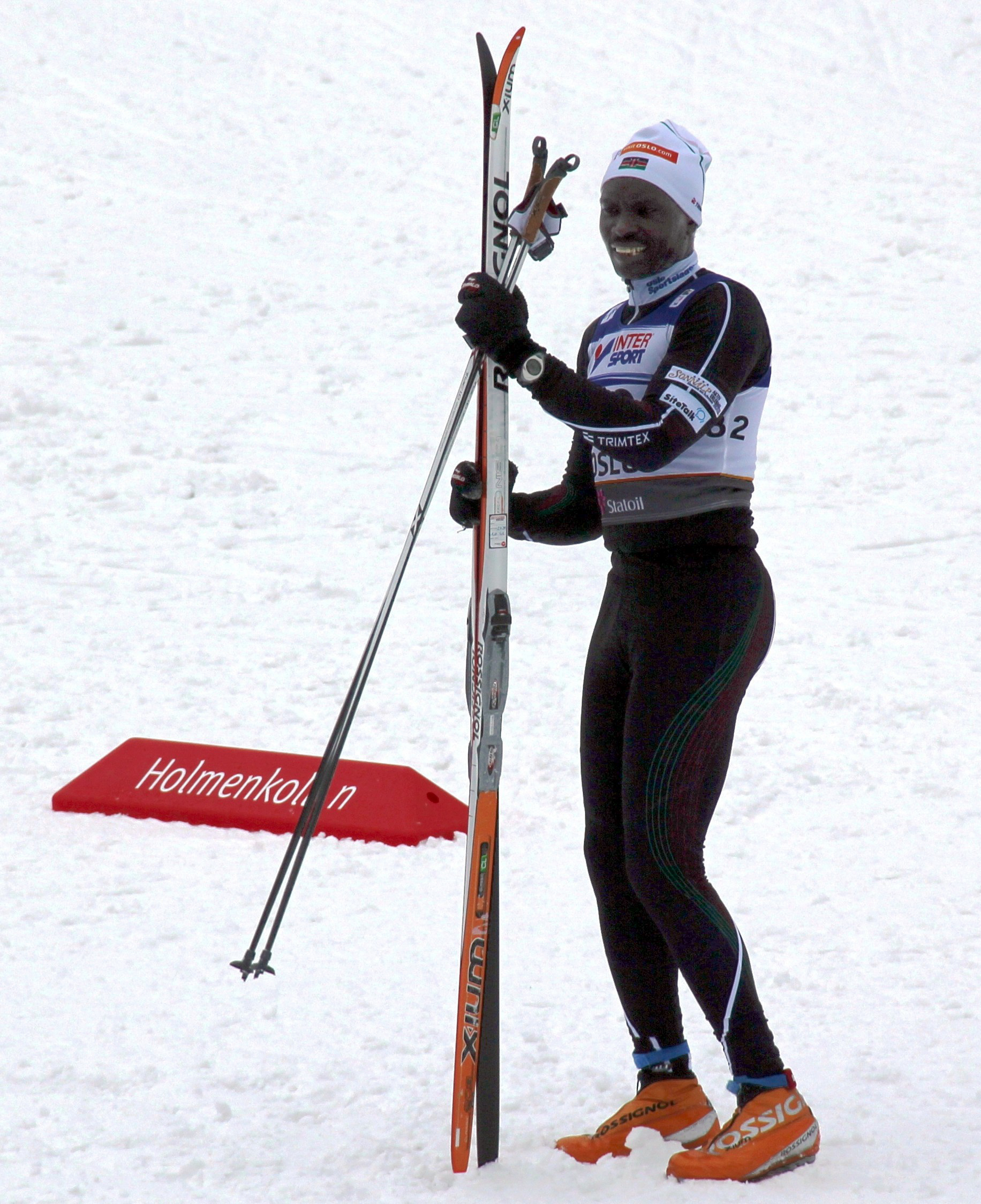 Philip Boit, Kenyan cross country skier at the FIS Nordic World Ski Championships in Oslo